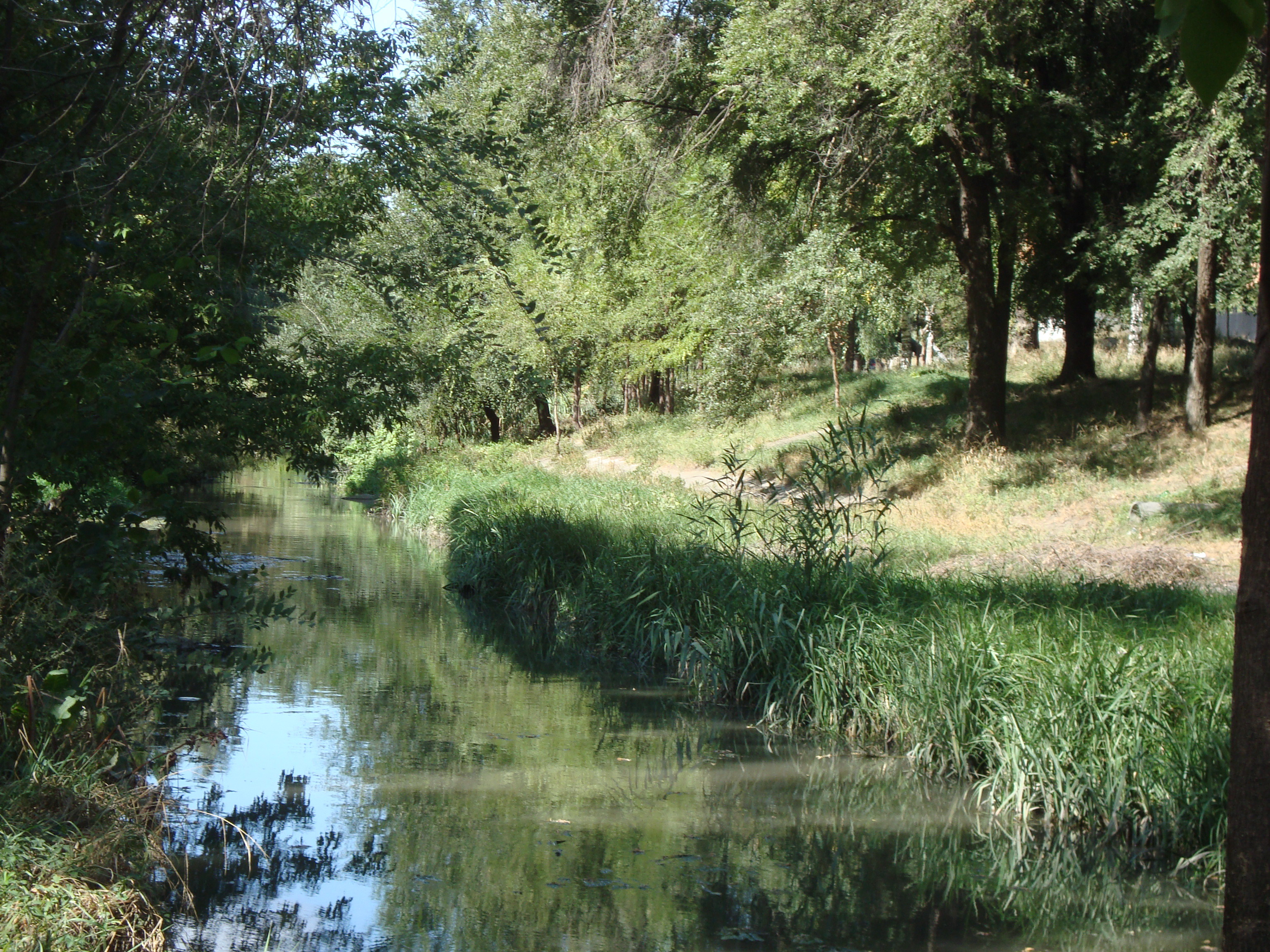 Photo of the Bîc river